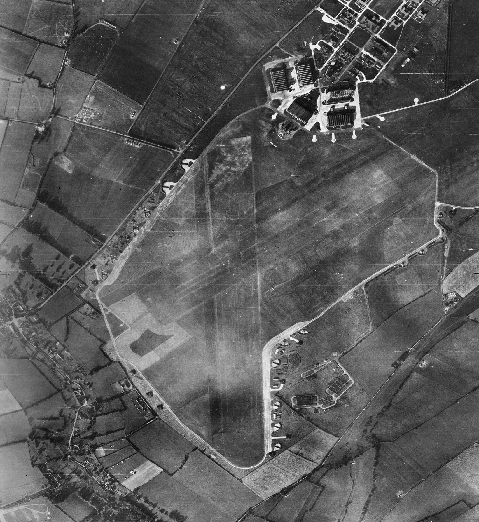 Aerial photograph of Middle Wallop airfield looking north, the control tower is in front of the technical site with five C-Type hangars upper right, 29 October 1946. Photograph taken by No. 58 Squadron, sortie number RAF/CPE/UK/1811. English Heritage (RAF Photography).